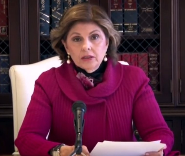 Gloria Allred (1941–) Alternative names Gloria Rachel AllredDescriptionAmerican attorney at law, lawyer and radio personalityspecialization in civil rights and women's rightsDate of birth 3 July 1941 Location of birth Philadelphia Authority control : Q5571314 VIAF: 73398189 ISNI: 0000 0000 3946 2641 LCCN: no00049017 WorldCat creator QS:P170,Q5571314 in 2012